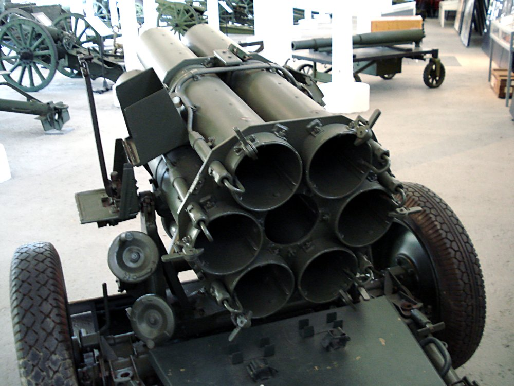 Nebelwelfer rocket launcher, displayed in Hämeenlinna Artillery Museum. Photo taken on June 18, 2006. Source: Photo by me, User:Balcer.